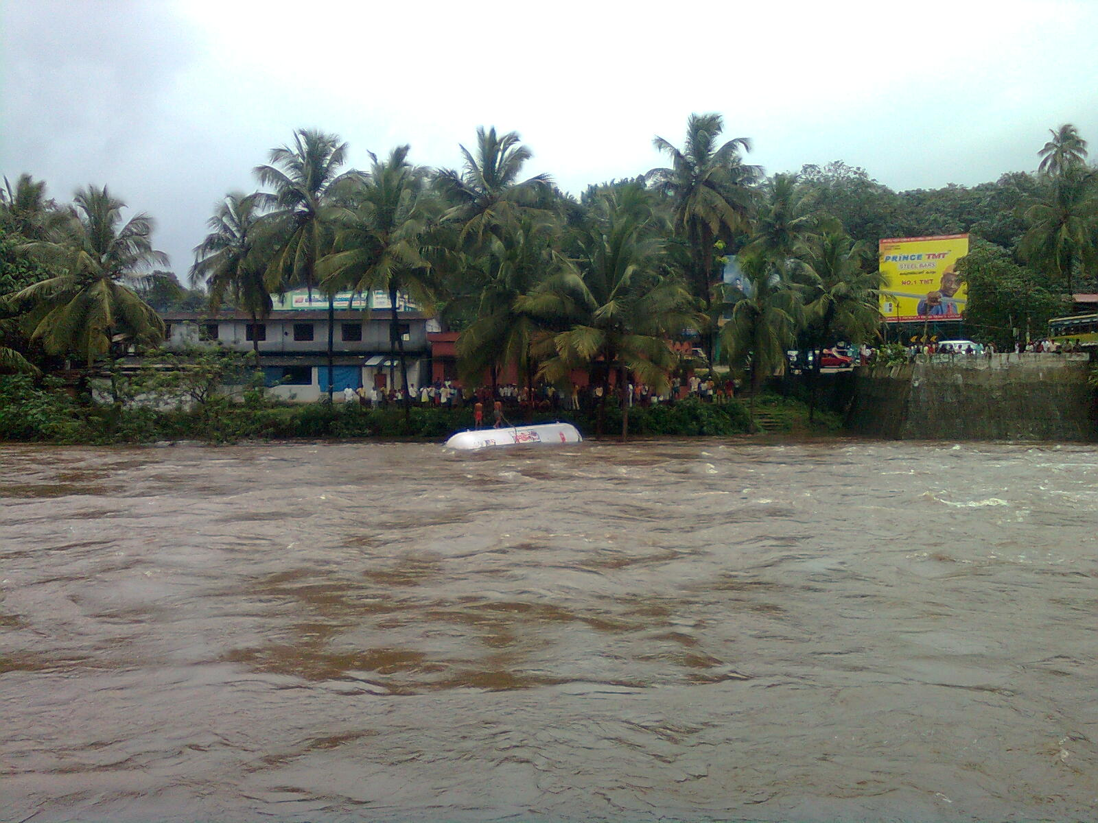 Kunthippuzha River in Mannarkkad